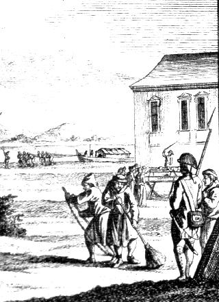 Punishment: Pulling a ship (back), street sweeper and corporal punishment; Ideas from Austrian imperator Joseph II., Pulling a Ship as punishment only from 1784 - 1790 in use